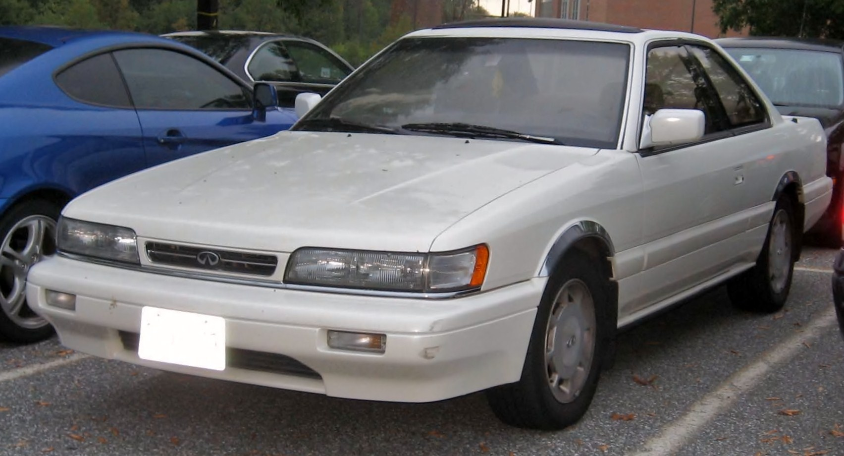 Infiniti M30 photographed in College Park, Maryland, USA.